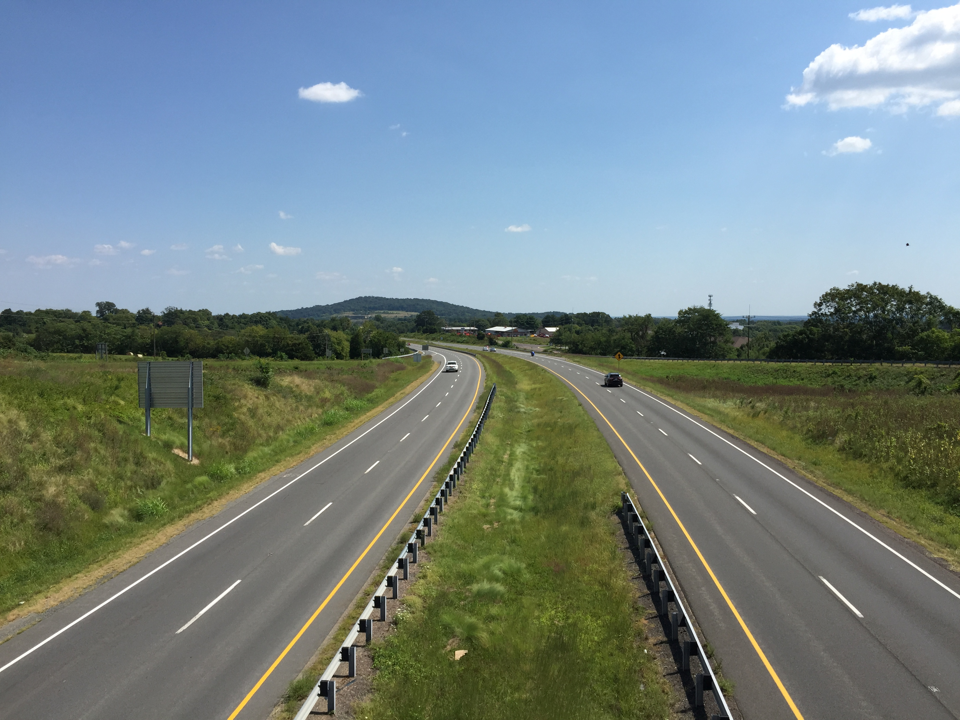 View north along U.S. Route 15 and U.S. Route 29 (James Madison Highway) from the overpass for U.S. Route 15 Business (Orange Road) just south of Culpeper in Culpeper County, Virginia